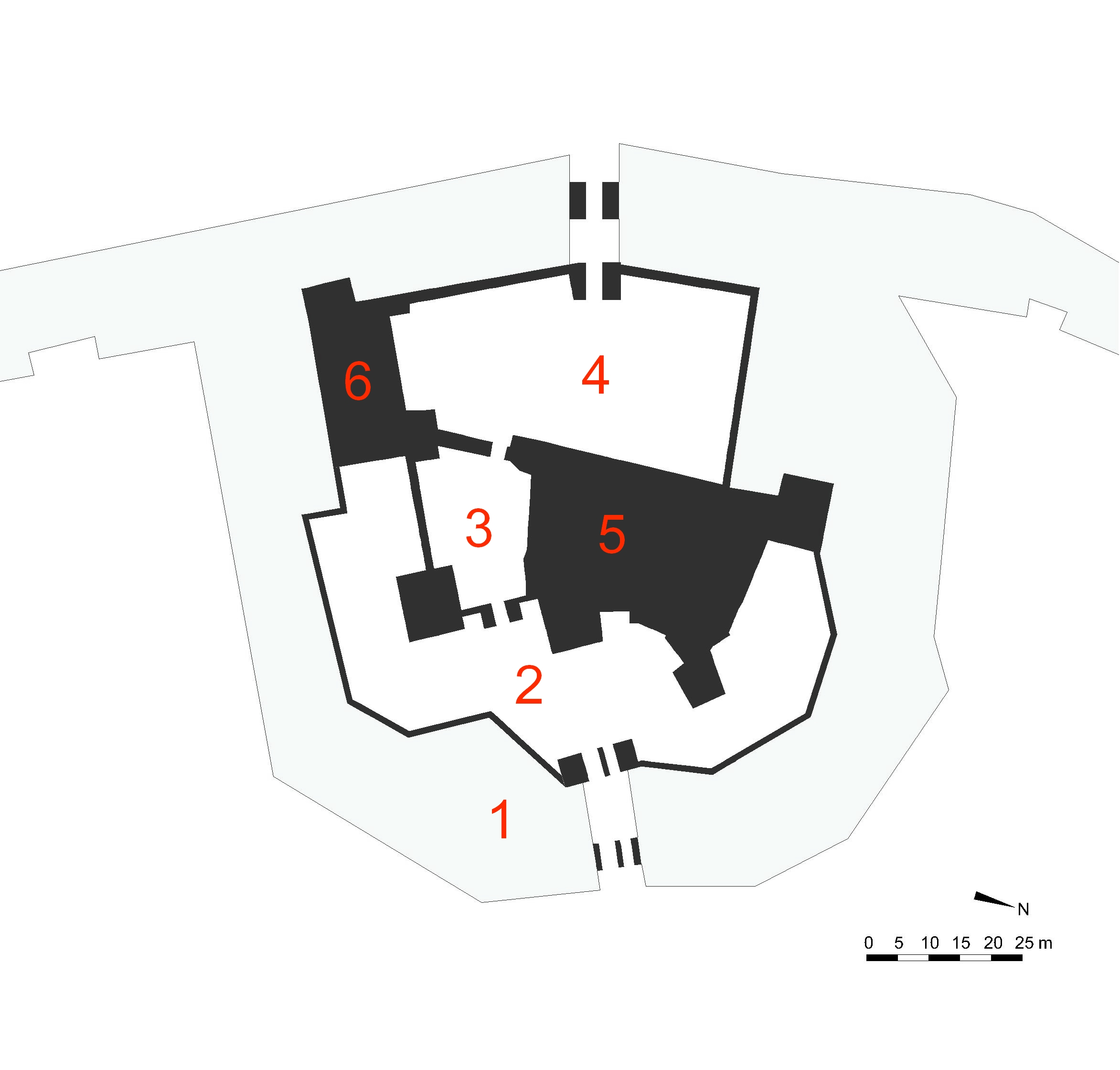 Reconstruction of Castel Sismondo's plan in Rimini, Italy, as it was in the middle of the 15th century. Based on Pier Giorgio Pasini, "Castel Sismondo", in: Domenico Berardi, "Rocche e castelli di Romagna", University Press, Imola 1999, p.45.